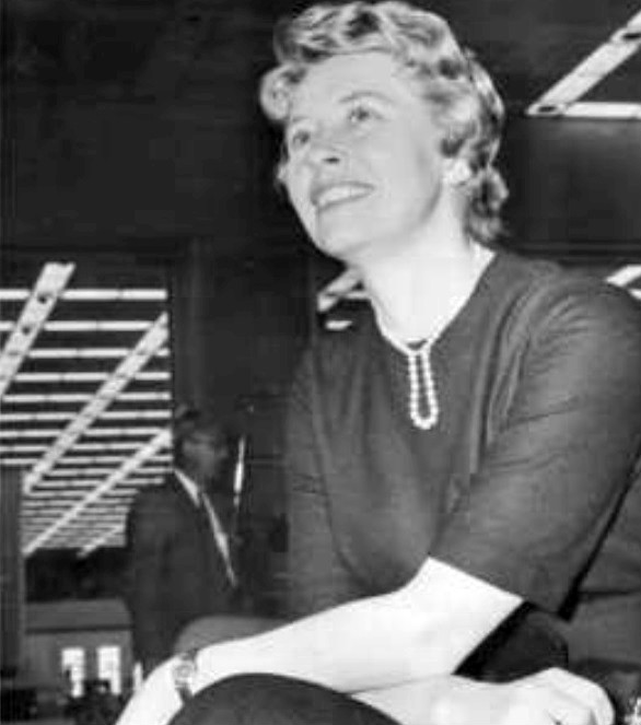 Photo of June Taylor taken by The Detroit News for a newspaper article. Since the photo was taken and published first in 1958 or before, I conducted a copyright renewal search at for "Detroit News". The only renewals seen were from 1964 or later. There's no evidence that the newspaper renewed the copyright on their older issues.